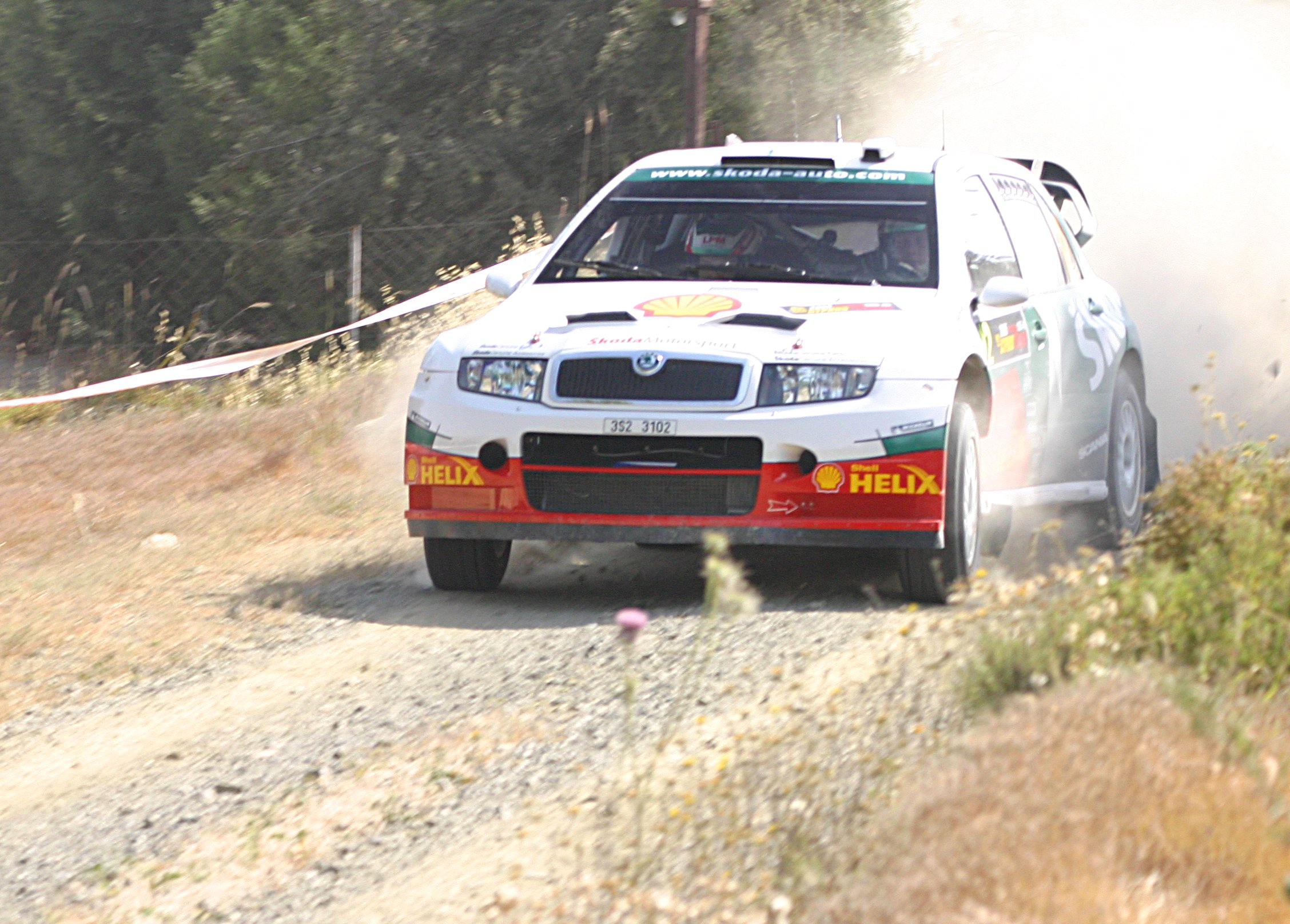 Janne Tuohino driving his Škoda Fabia WRC at the 2005 Cyprus Rally.